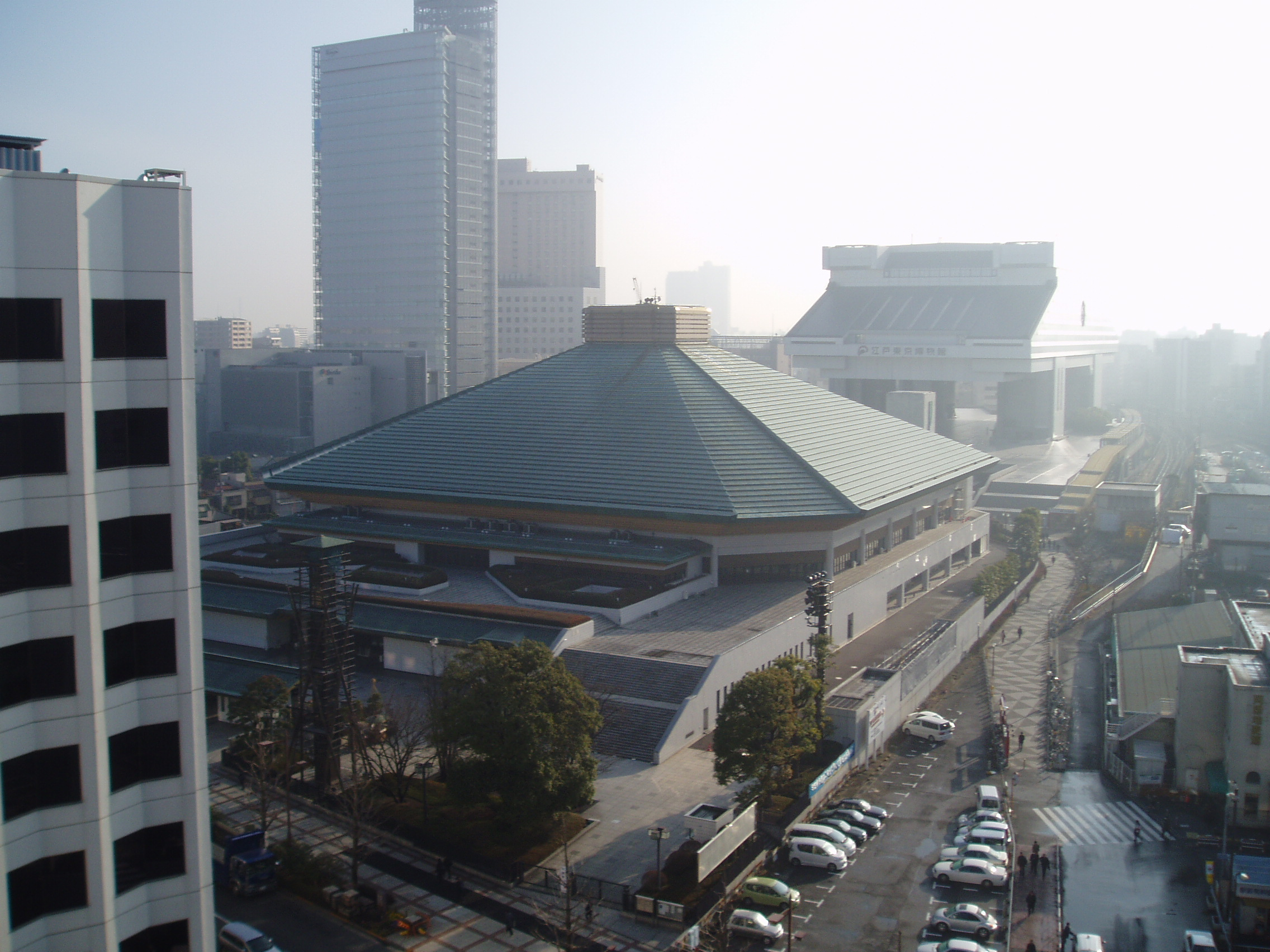 The Kokugikan (sumo hall) at Ryogoku, Tokyo. Edo-Museum in the Background. (Western view, coordinates 35°41'49"N, 139°47'36"E)